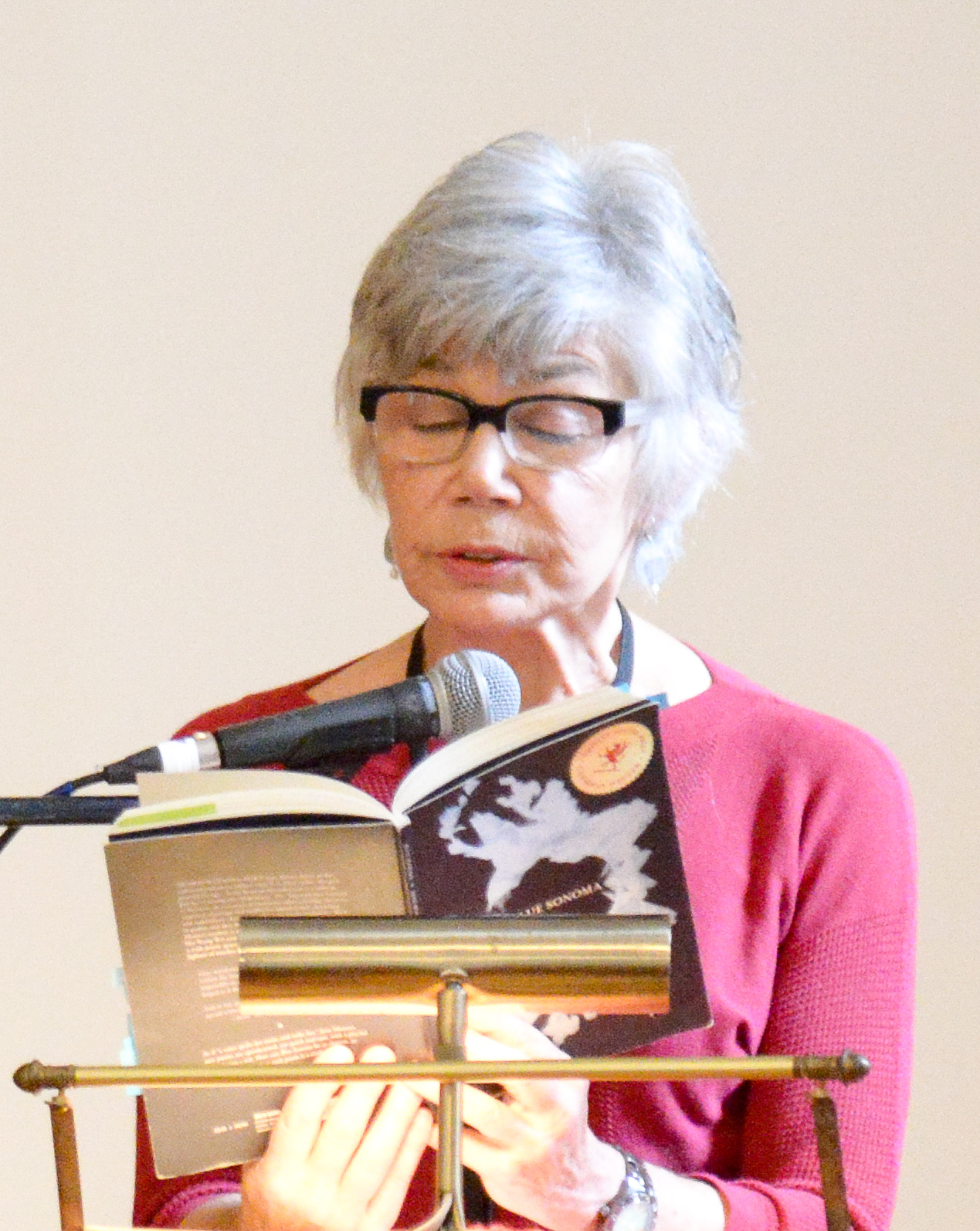 Jane Munro at the Eden Mills Writers' Festival